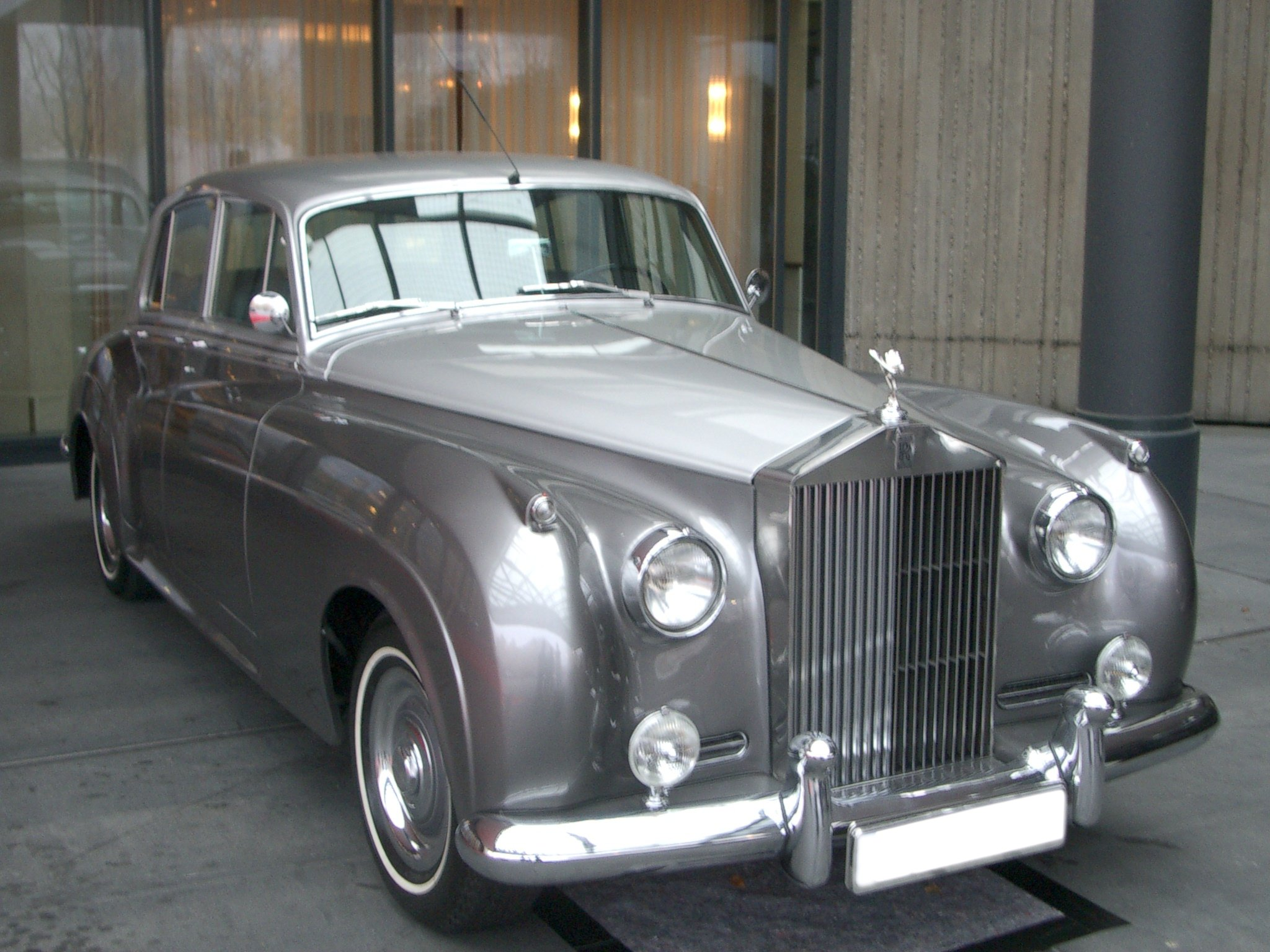 1959 Rolls Royce Silver Cloud I